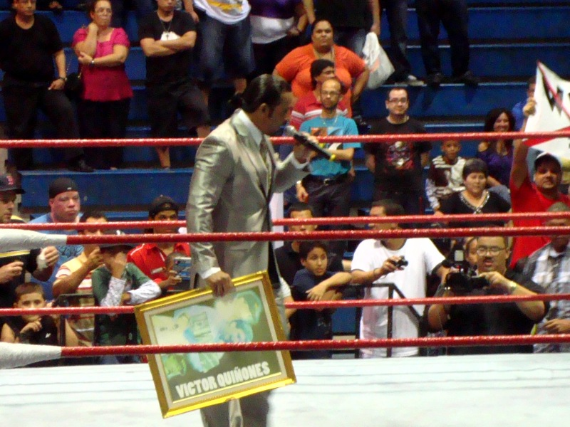 Gilbert hosting "La Opinión de Gilbert" during Victor Quiñones's IWA Hall of Fame induction.